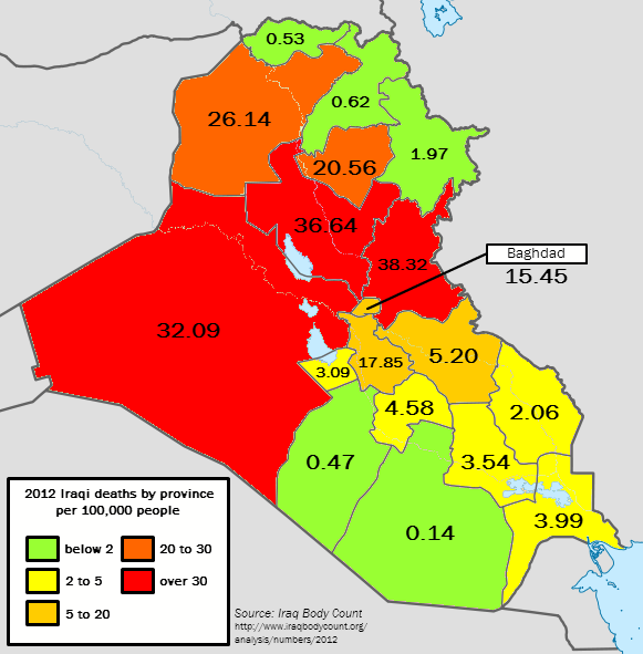 A visual representation of Iraqi deaths due to the ongoing insurgency. The data is taken from the Iraqi Body Count analysis, and covers the whole of 2012.